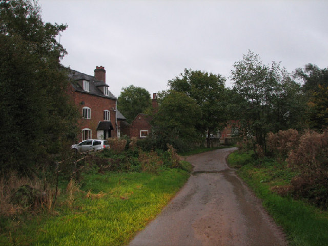 Ansley Mill and Ford. A wet October evening with a road meant to be flooded!!